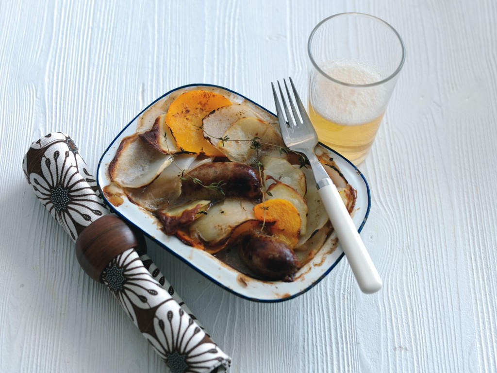 Try our mouth watering Lancashire hotpot with pork sausages recipe for a quick and easy way to enjoy pork that tastes delicious. Read the recipe now.